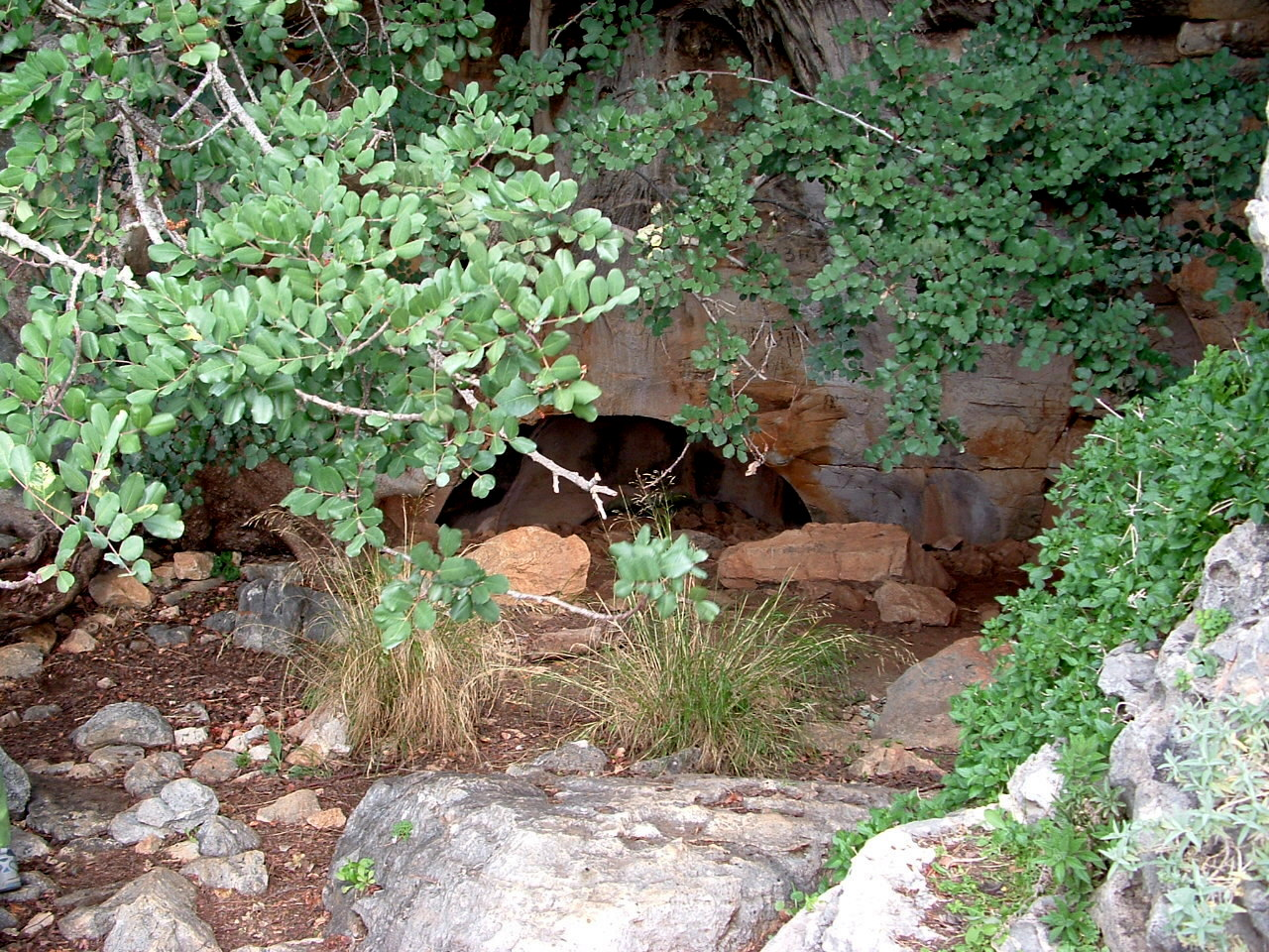 Cave_in_Megadim_Cliff__Mount_Carmel -Israel